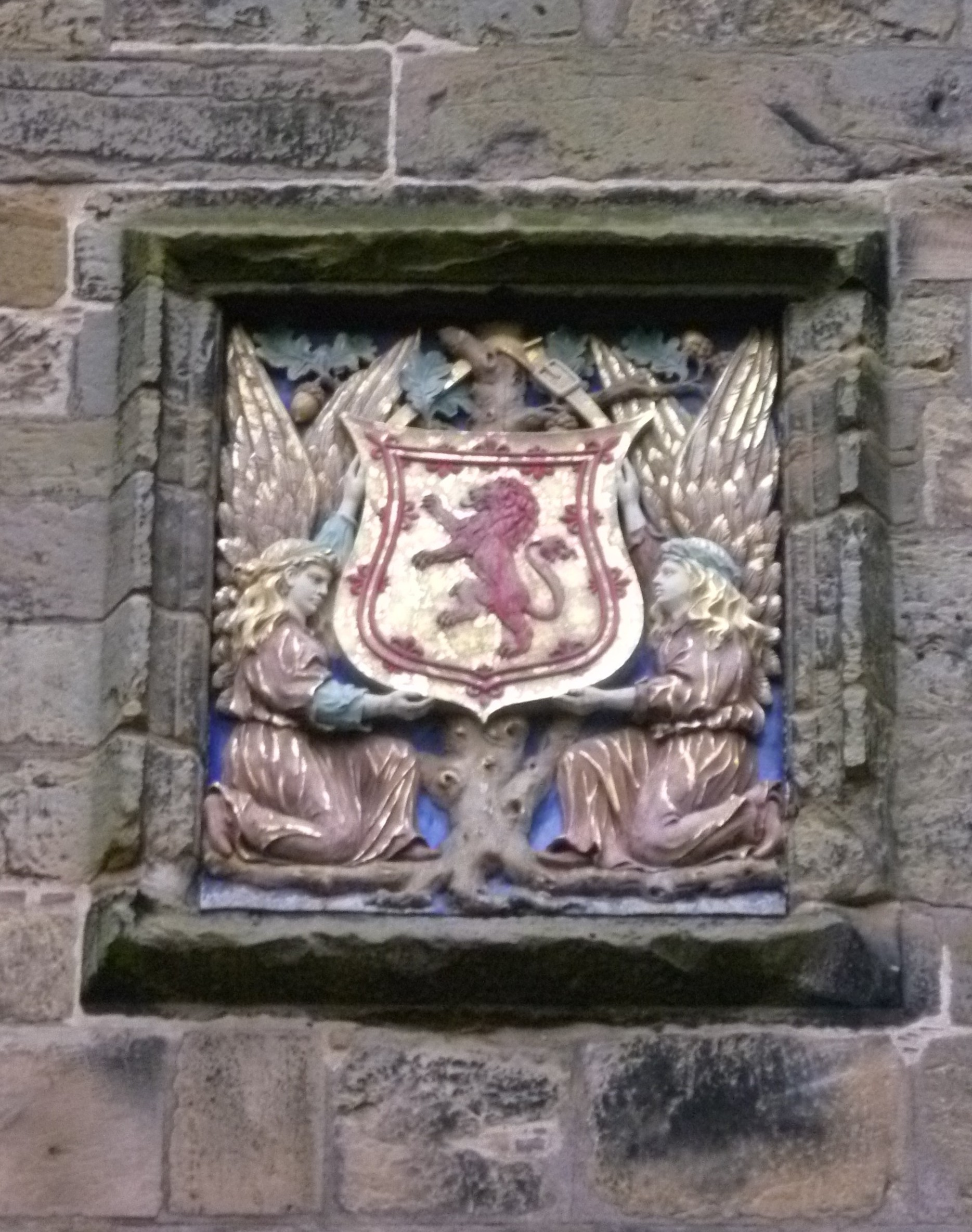 Central armorial tablet, Falkland Palace Gatehouse